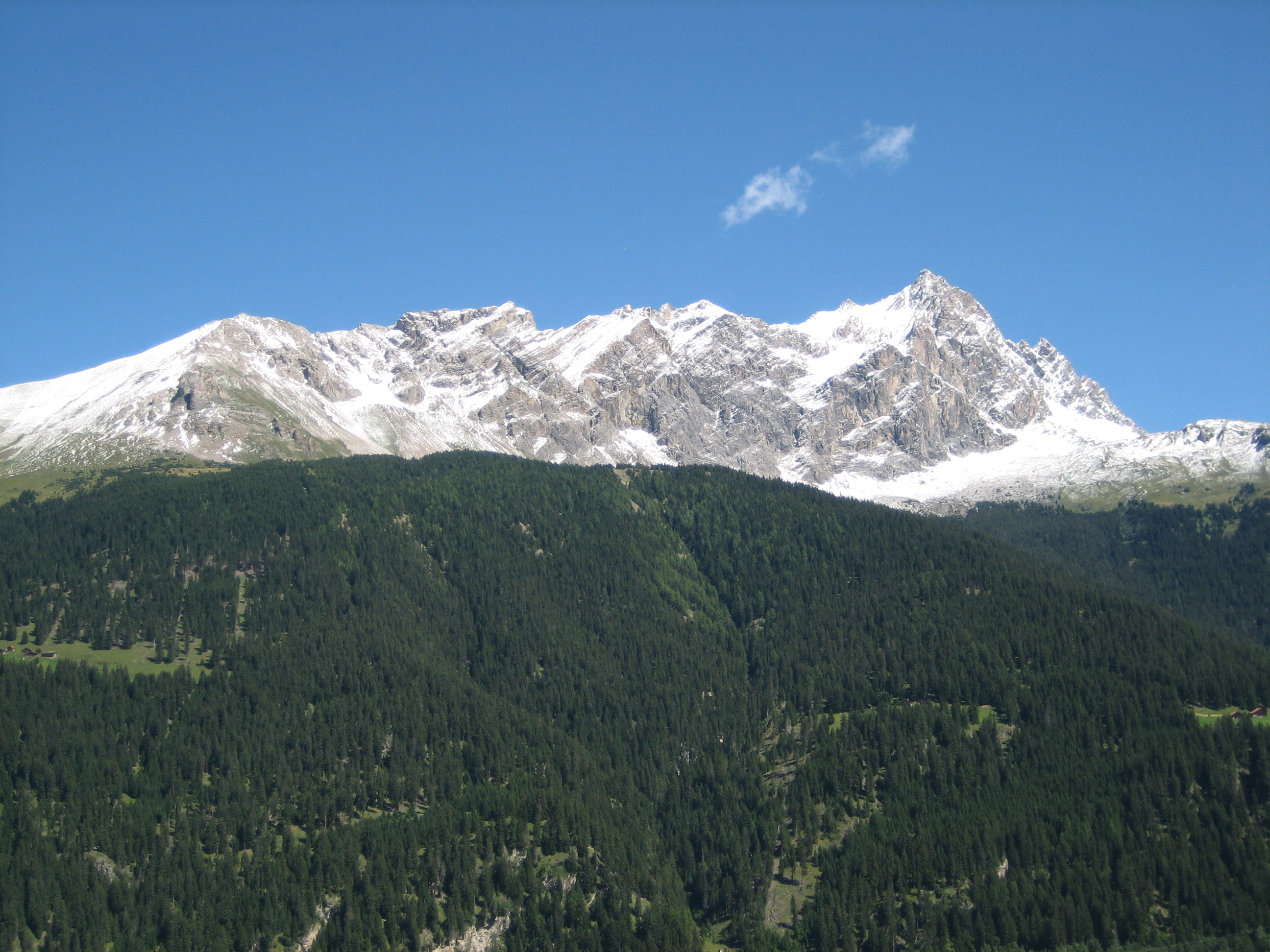 Piz Mitgel from Riom, Grisons, Switzerland